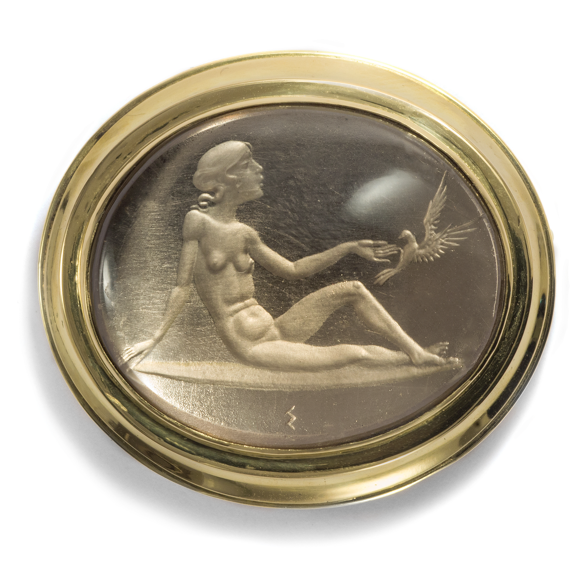 Cameo by Martin Seitz, Allegory of Peace, set in Gold as a Brooch, 1930ies. Property of Hofer Antikschmuck, Berlin (Germany).